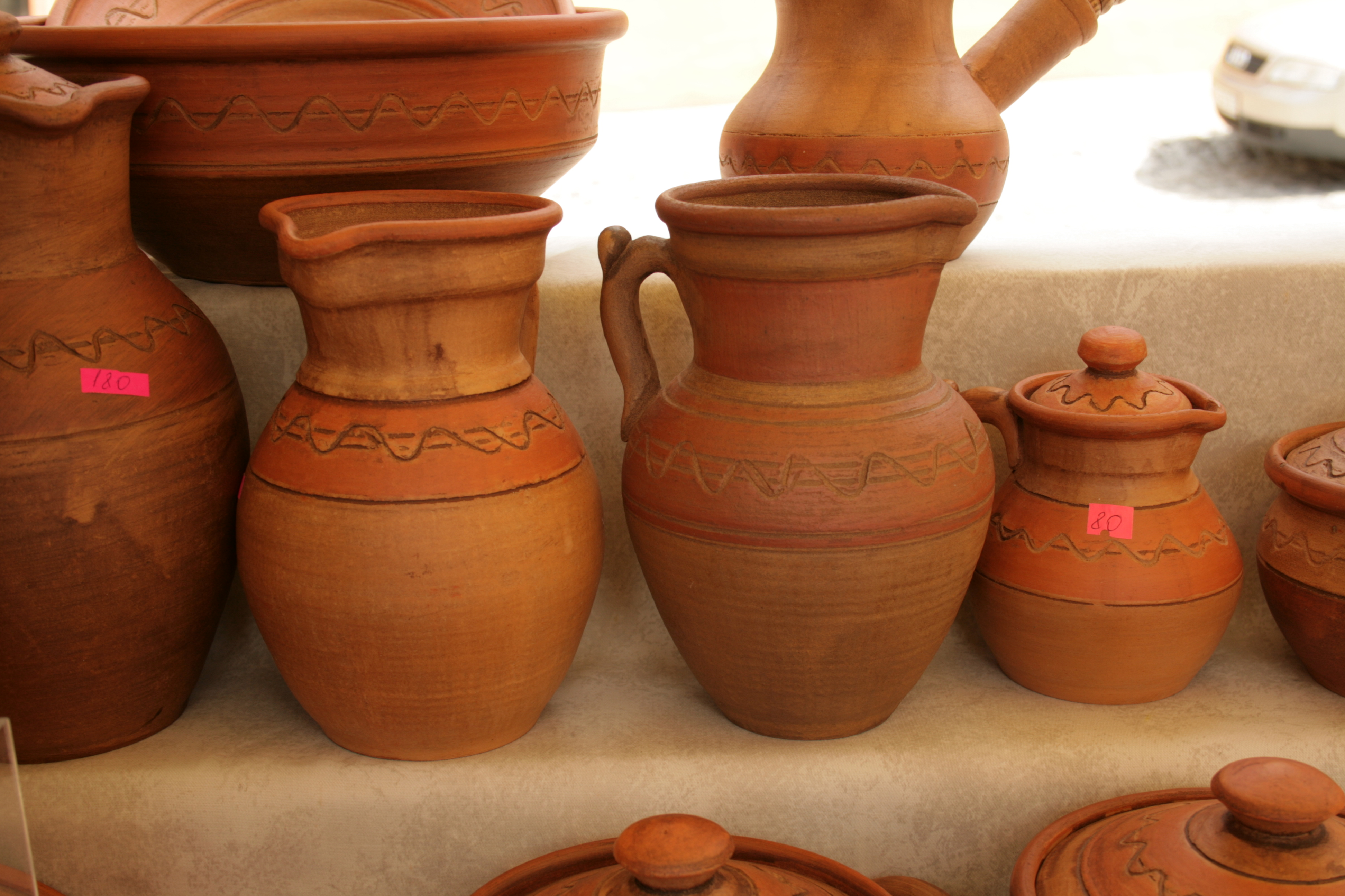 Kiev. 2013